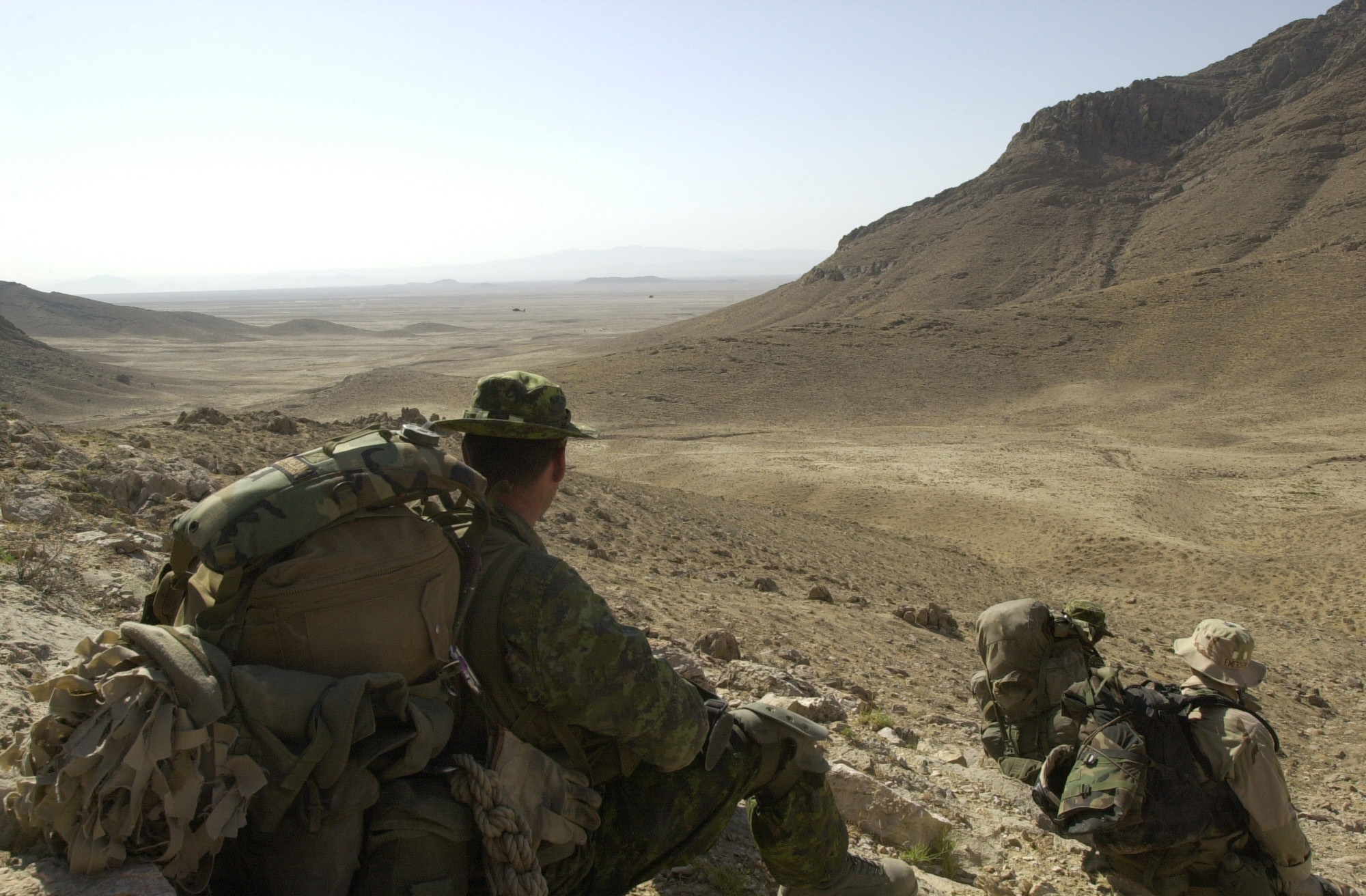 Canadian soldiers supporting Operation Enduring Freedom look out over Afghan landscape. U.S. Army photo by Staff Sgt. Robert Hyatt